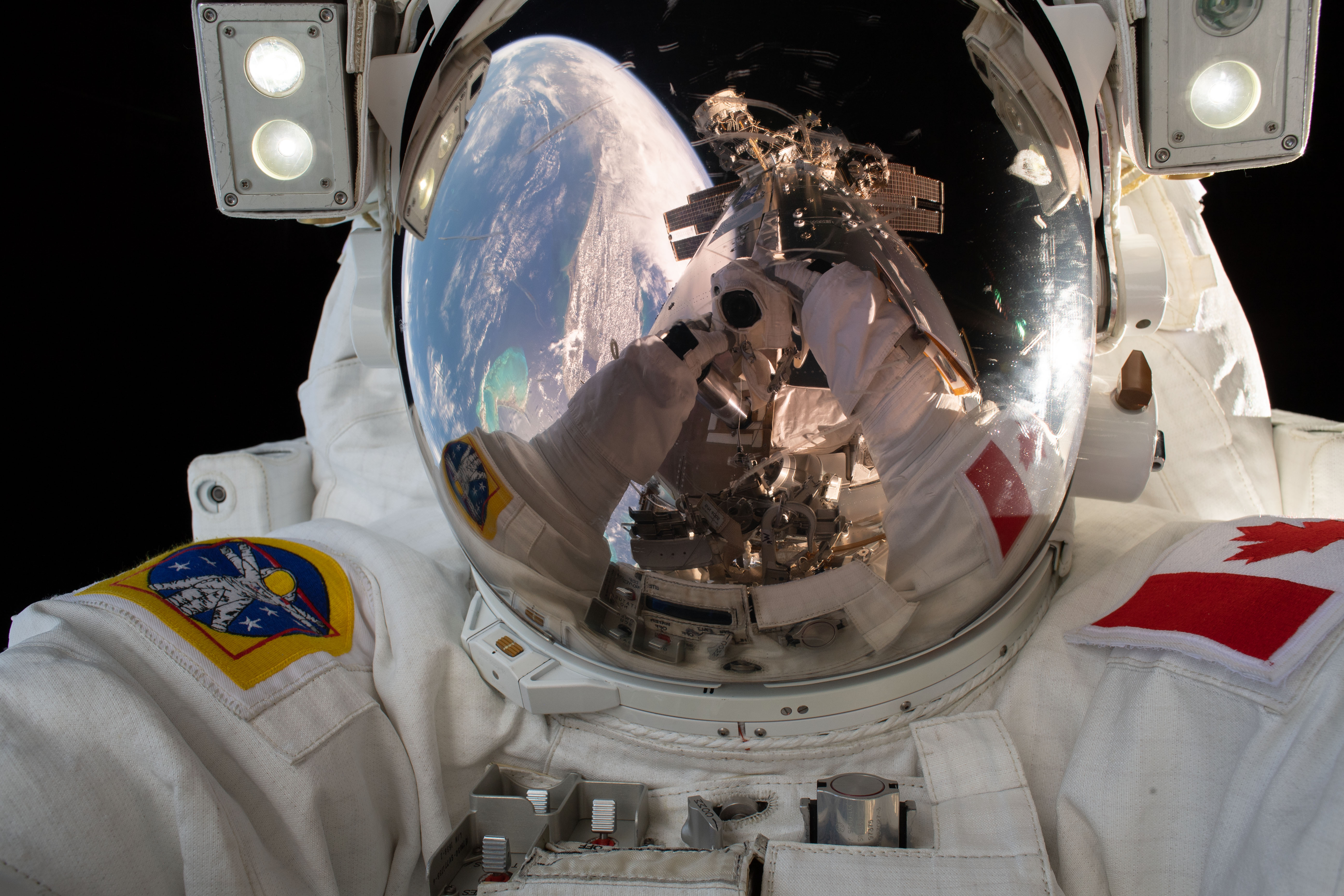 Expedition 59 Flight Engineer David Saint-Jacques of the Canadian Space Agency takes a quick self portrait while working outside the International Space Station. In a six and a half hour spacewalk, Saint-Jacques and NASA astronaut Anne McClain successfully established a redundant path of power to the Canadian-built robotic arm, known as Canadarm2, and installed cables to provide for more expansive wireless communications coverage outside the orbital complex, as well as for enhanced hardwired computer network capability. The duo also relocated an adapter plate from the first spacewalk in preparation for future battery upgrade operations.